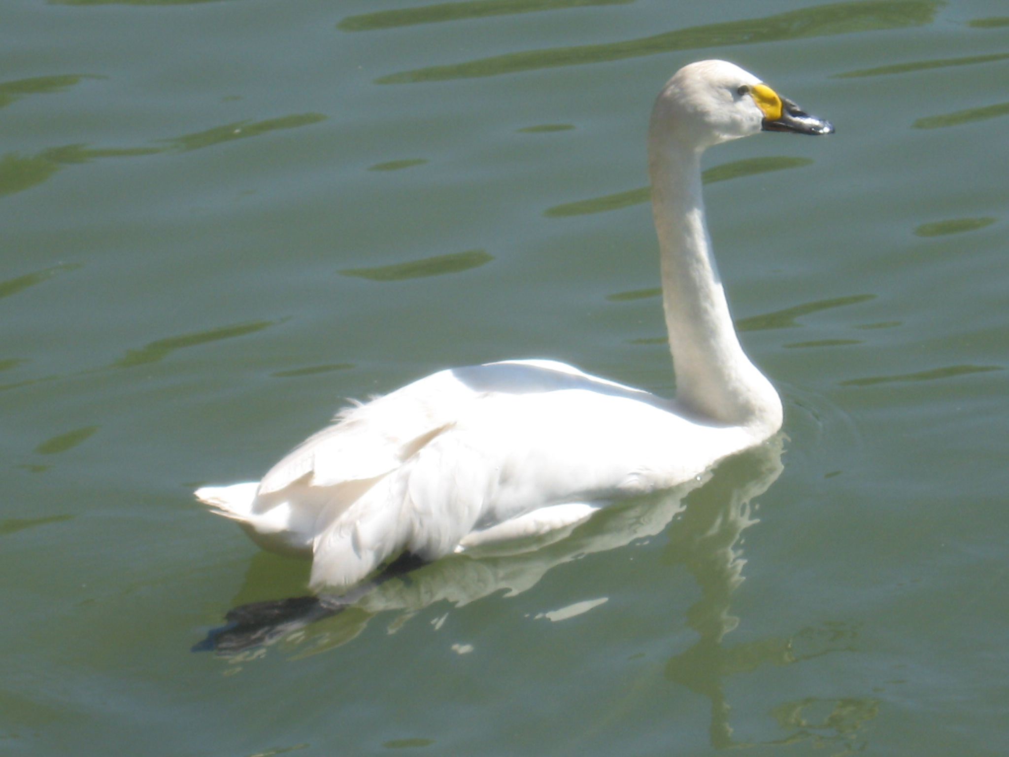 Tallinn Zoo Bewick's Swan (Cygnus columbianus)